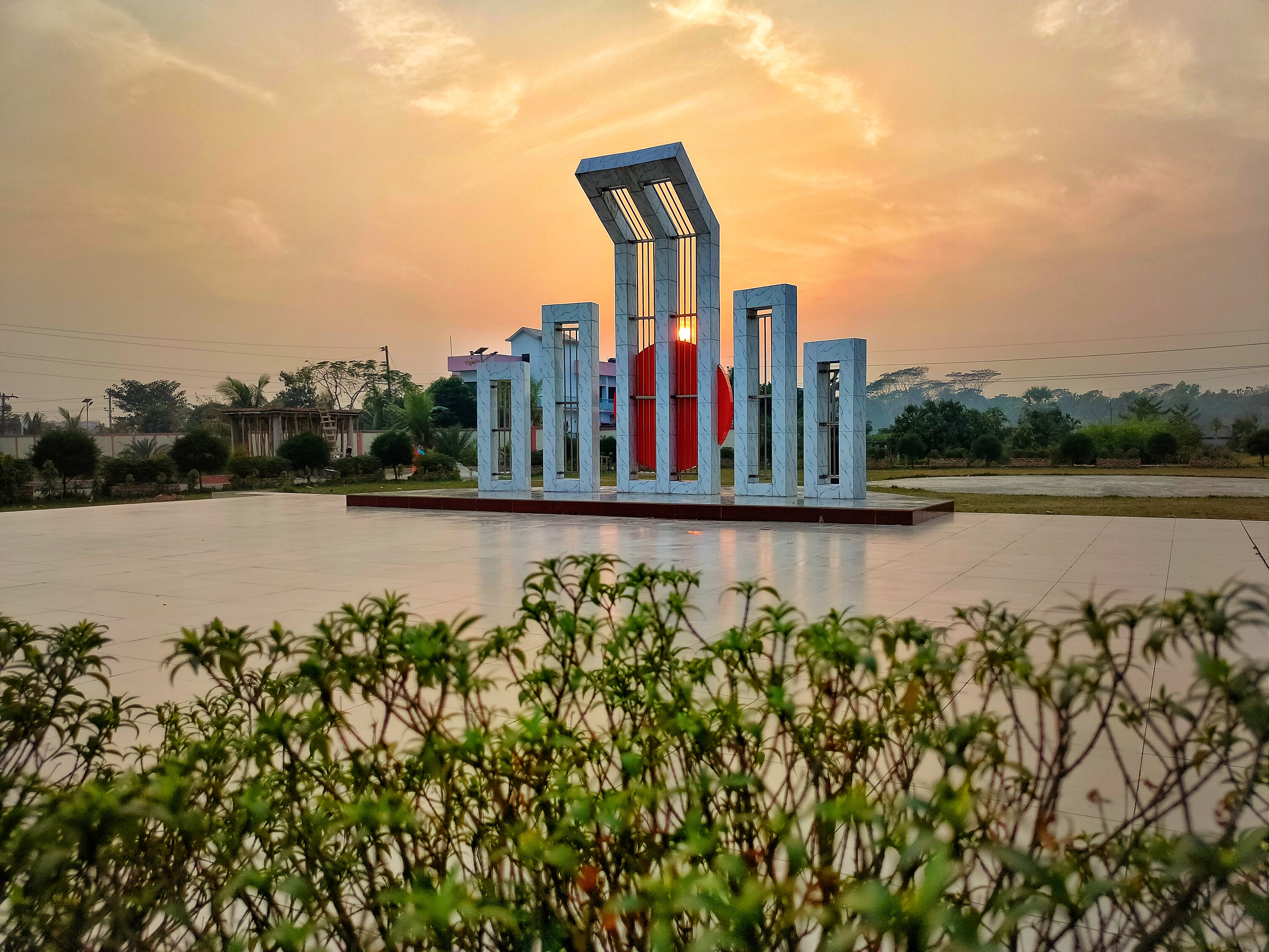 Central Shaheed Minar situated in Saltha, Faridpur, Bangladesh.